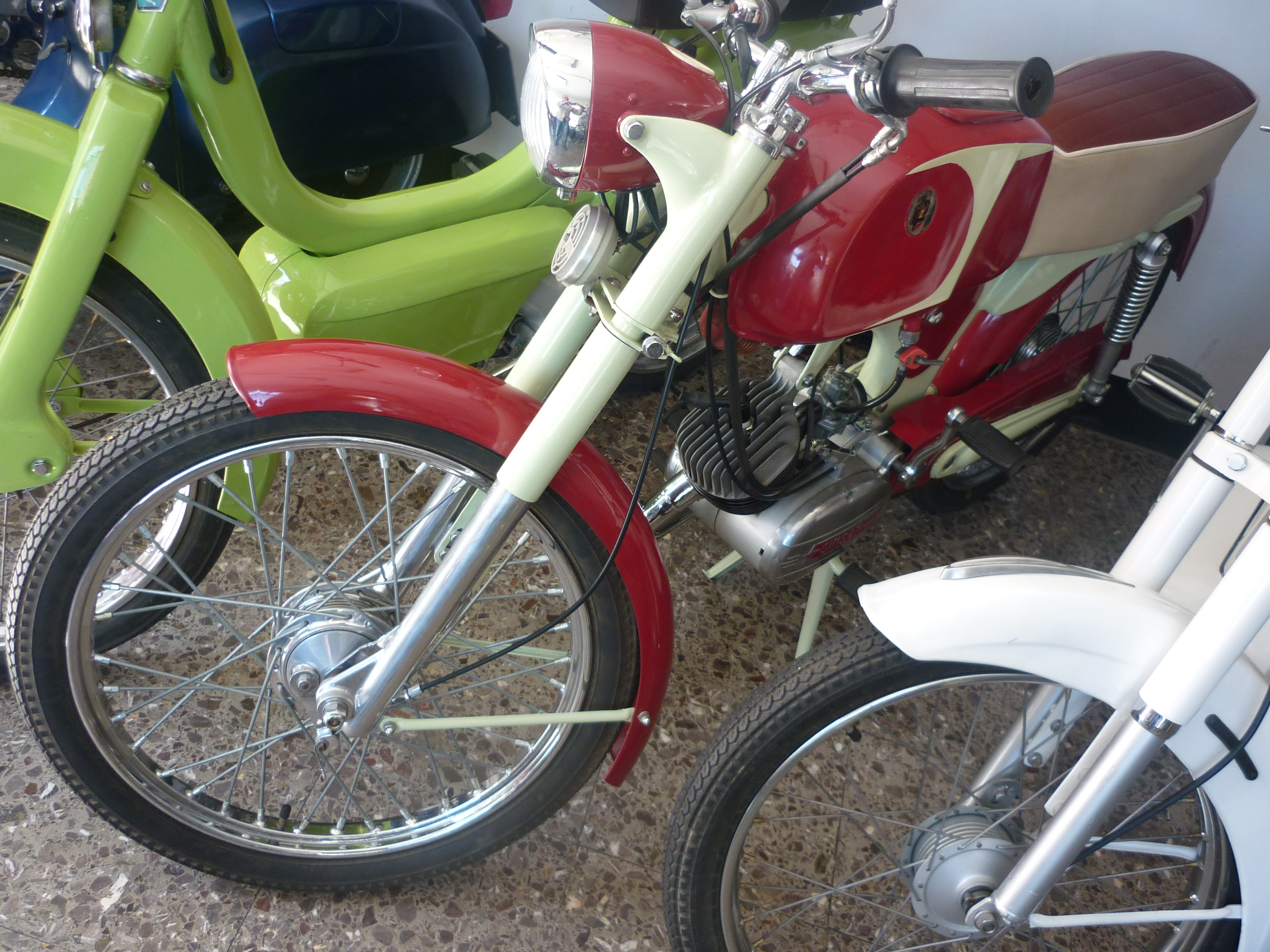 Mopped Gimson 49cc "Polaris", 1967, between two "Vespino". Vilassar de Mar (Spain)